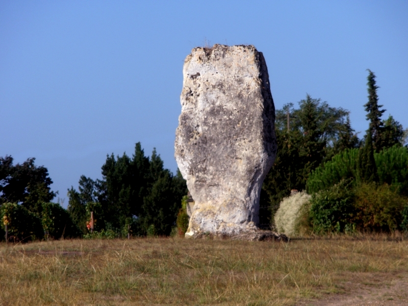 Menhir de Pierrefitte in Saint-Sulpice-de-Faleyrens (Gironde - FRANCE)